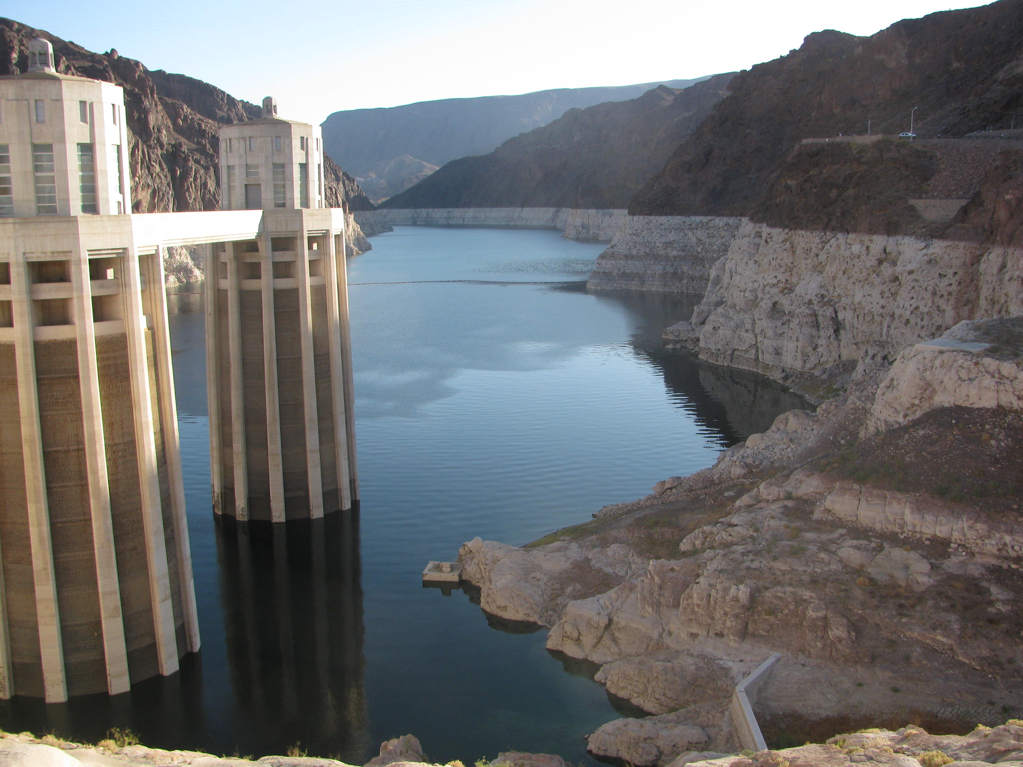 Water elevation on this date was 1093.77 ft.